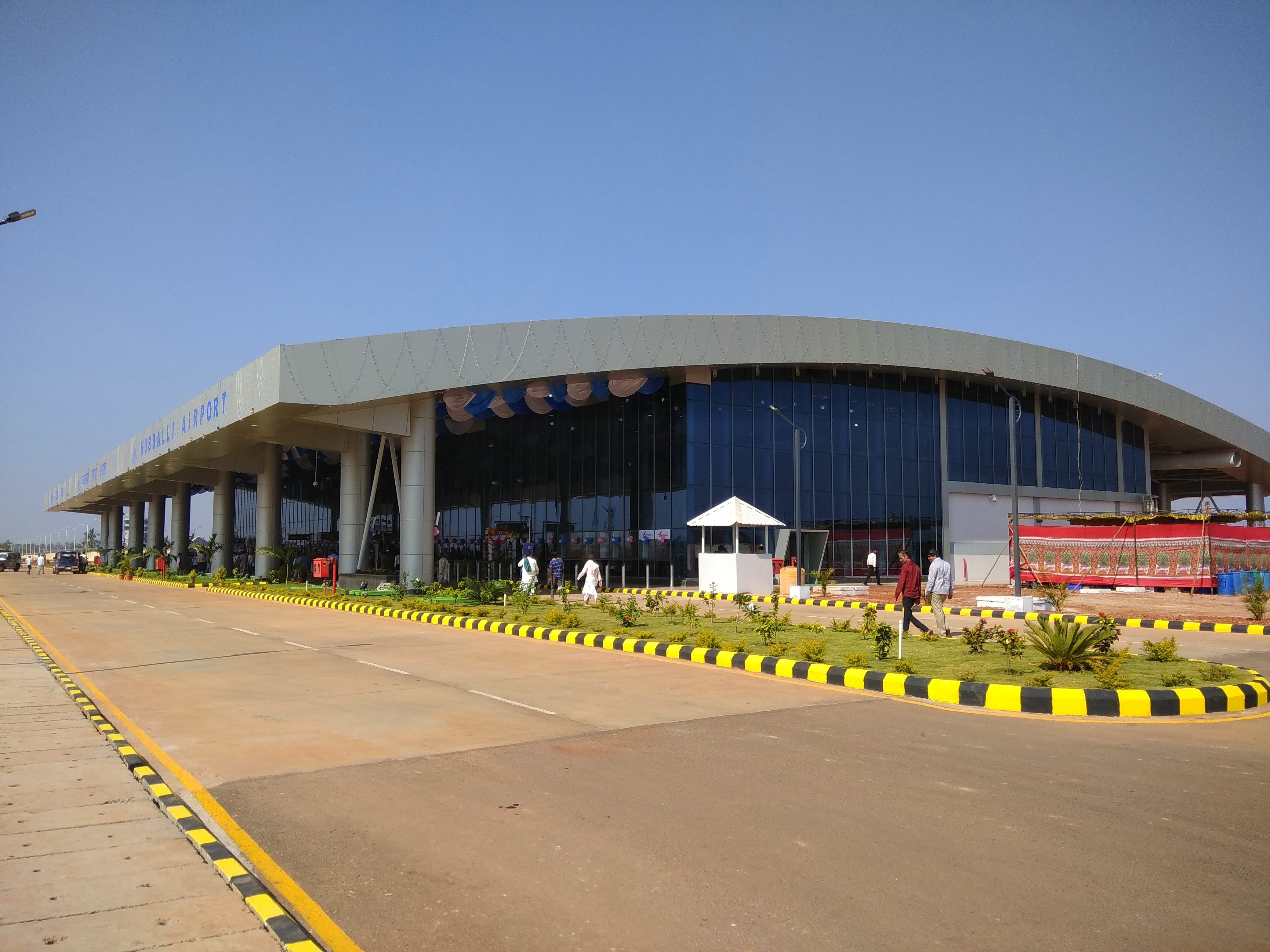 New Terminal of Hubli Airport